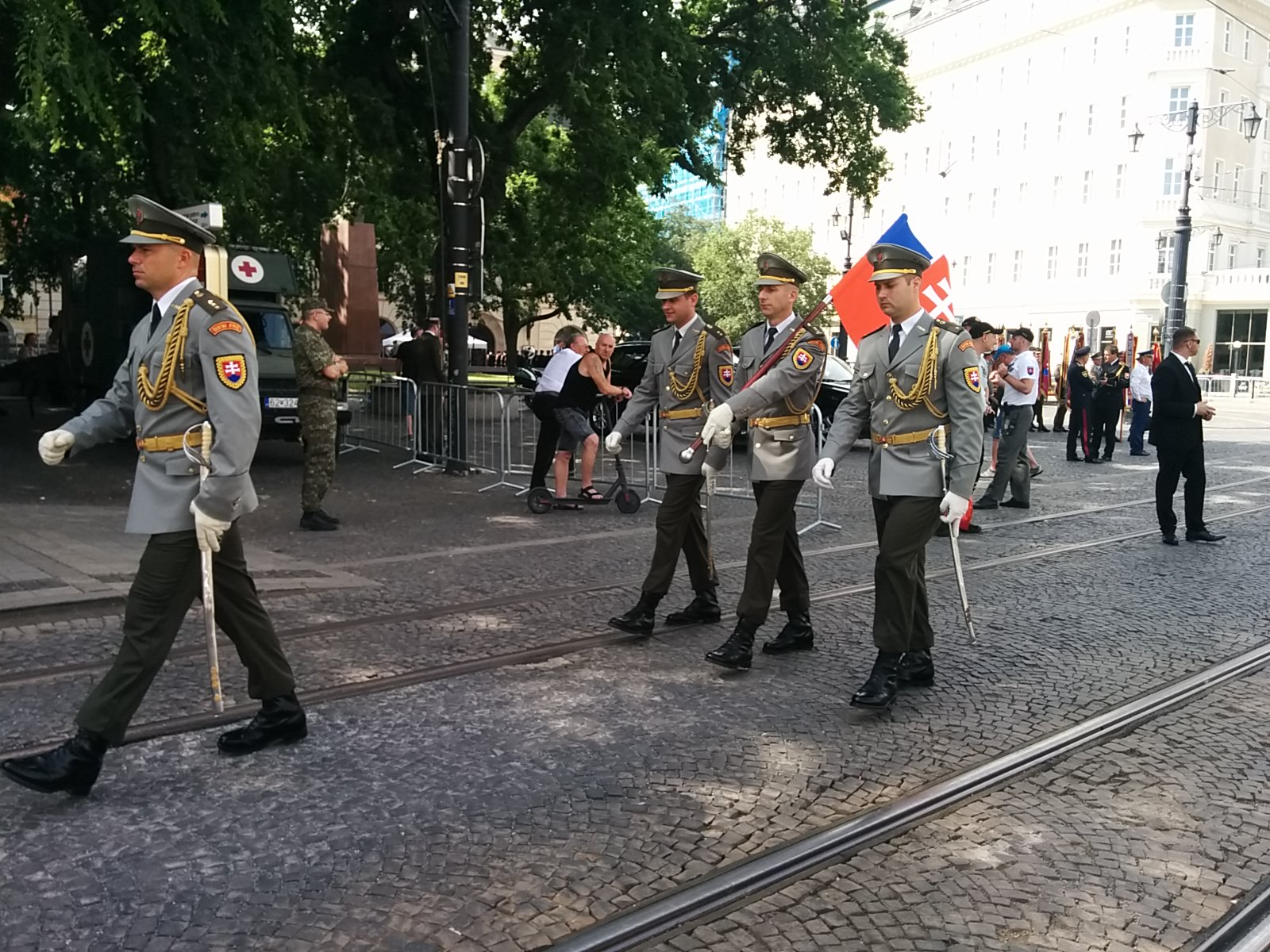 Flag bearers during the rehearsal for the Presidential Inauguration of Zuzana Čaputová on 15 June 2019.